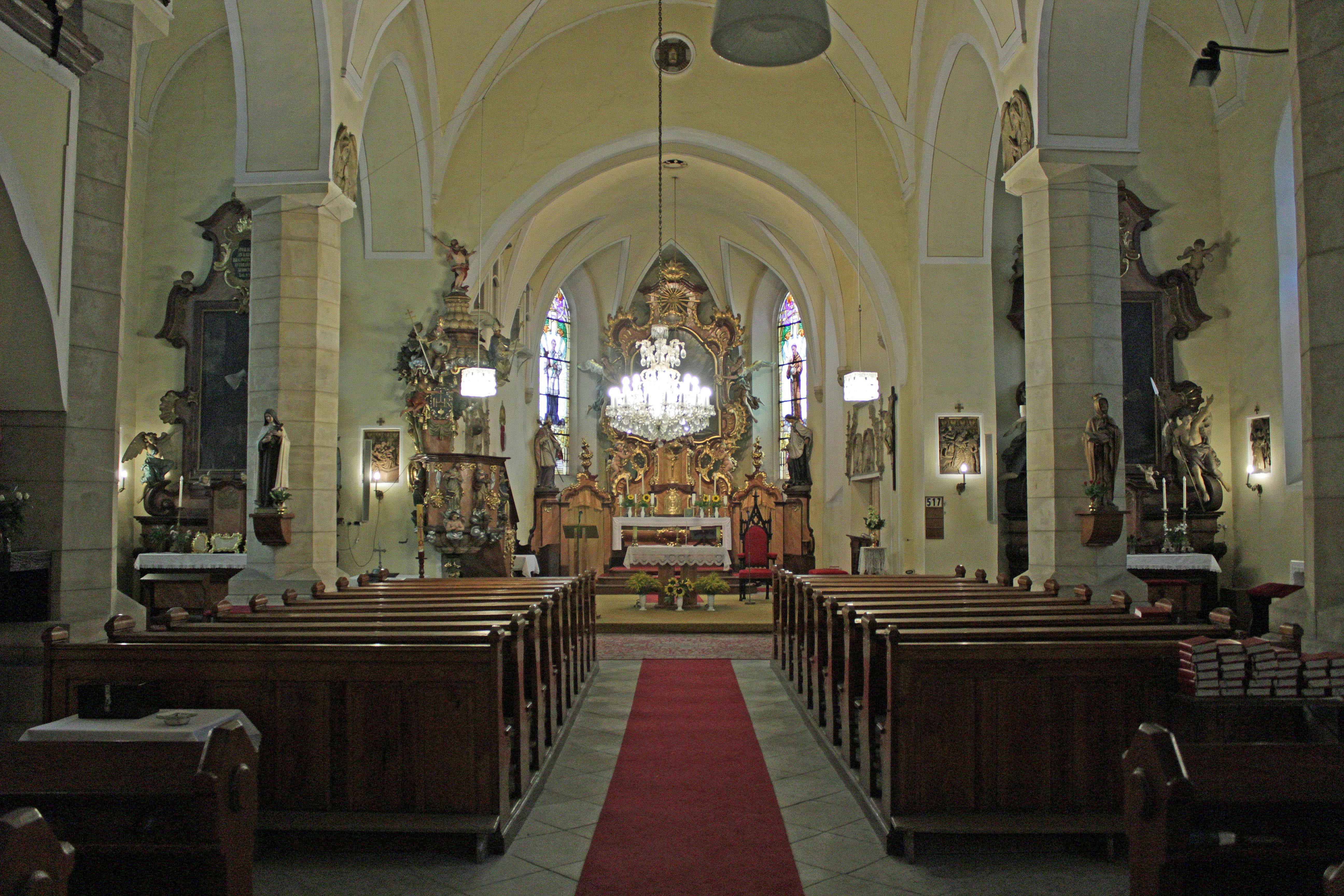 church, main choir